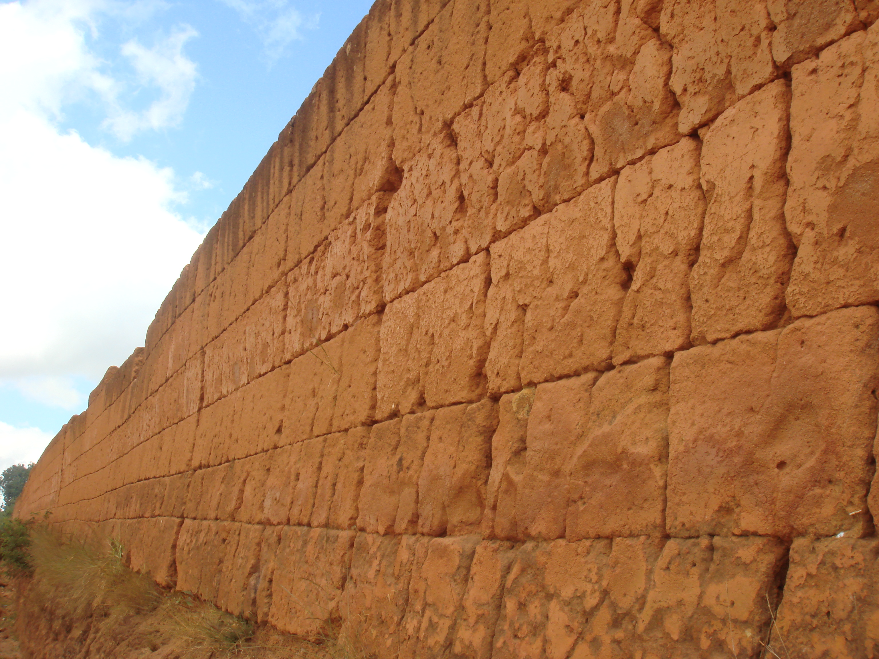 The old village wall near Ambohimanga.